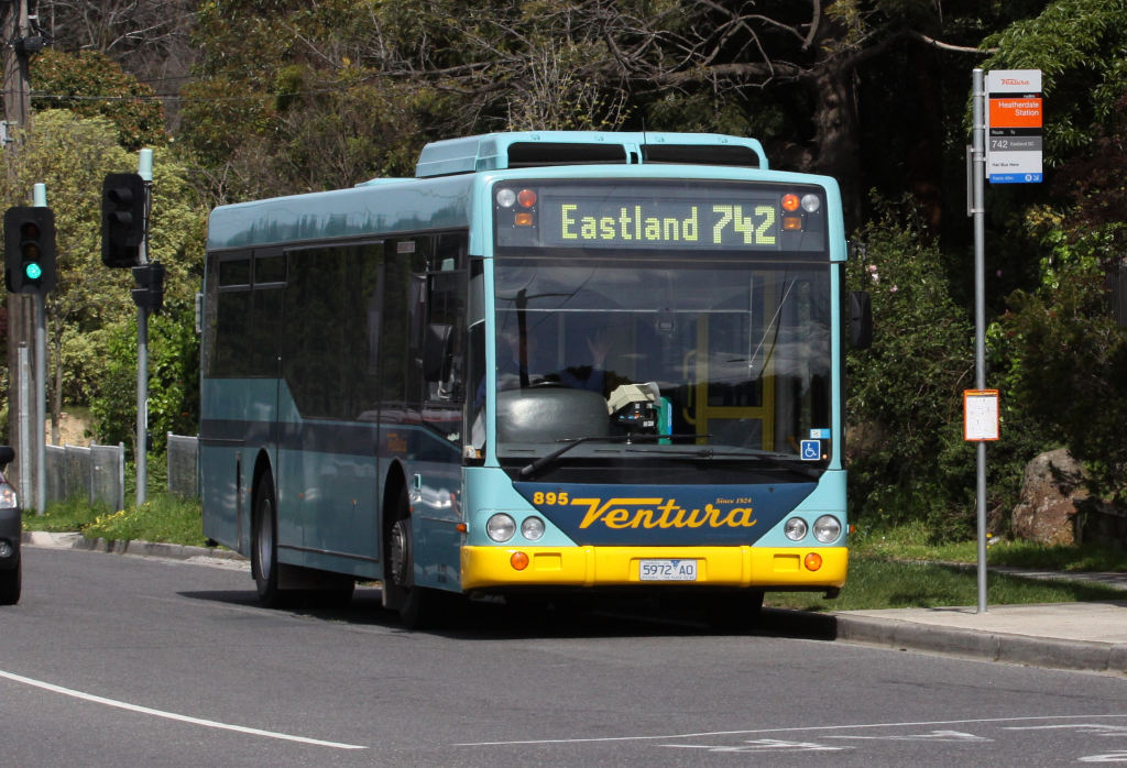 Ventura bus 895 rego 5972AO on route 742 picks up passengers at Heatherdale